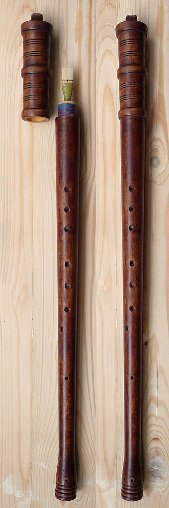 Cornamuse